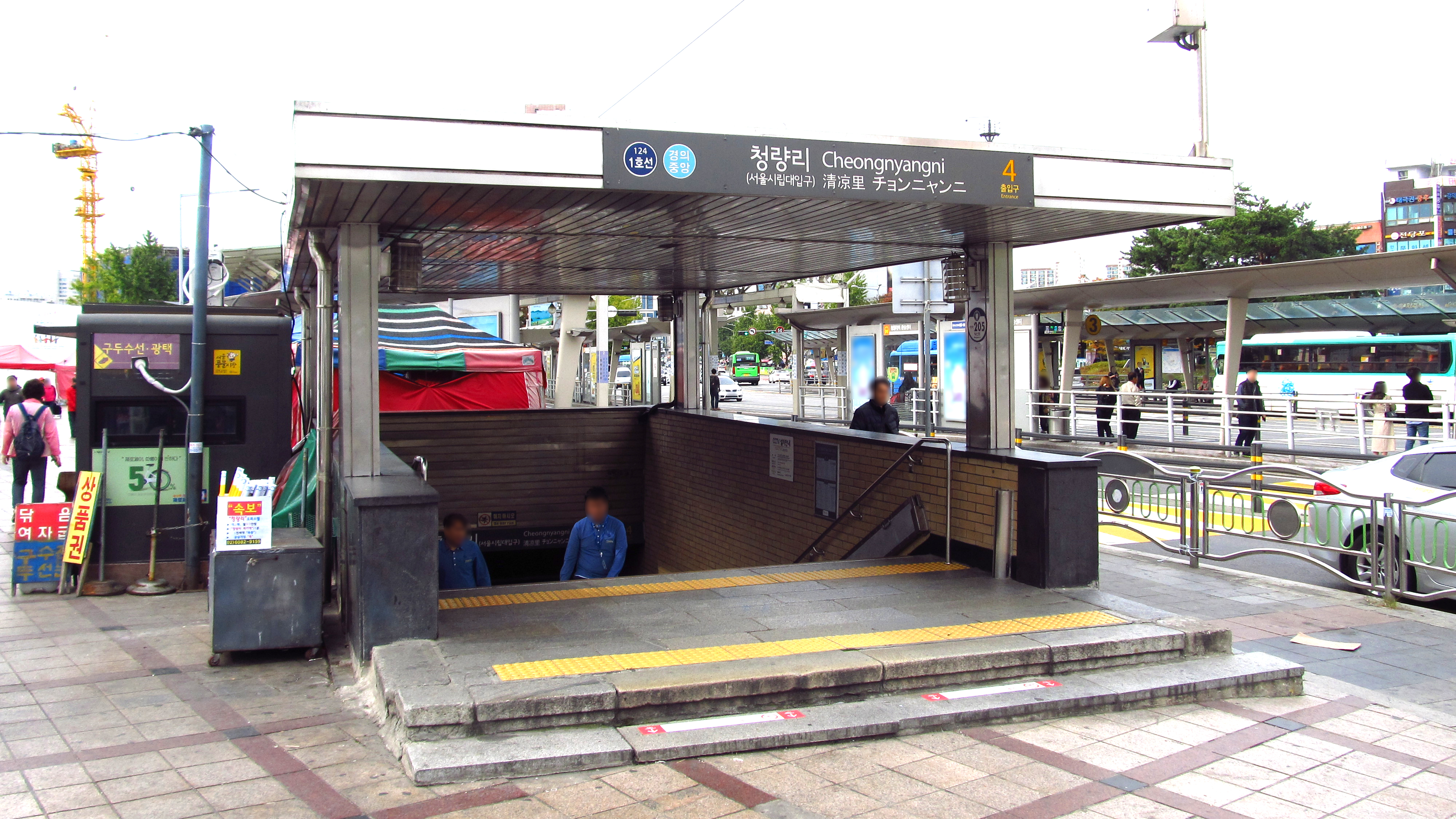 The no.4 entrance to Cheongnyangni Station on the Seoul Metro Line 1 in Dongdaemun-gu, Seoul, Republic of Korea(South Korea)